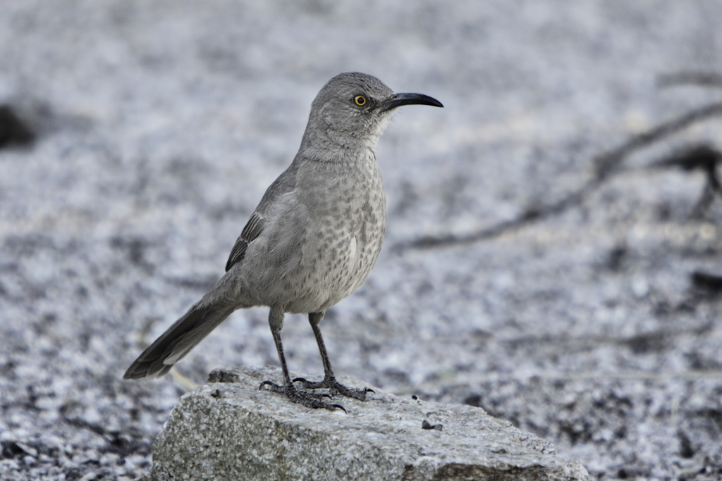 Curve-billed Thrasher (Toxostoma curvirostre), observed in Sabino Canyon, Arizona